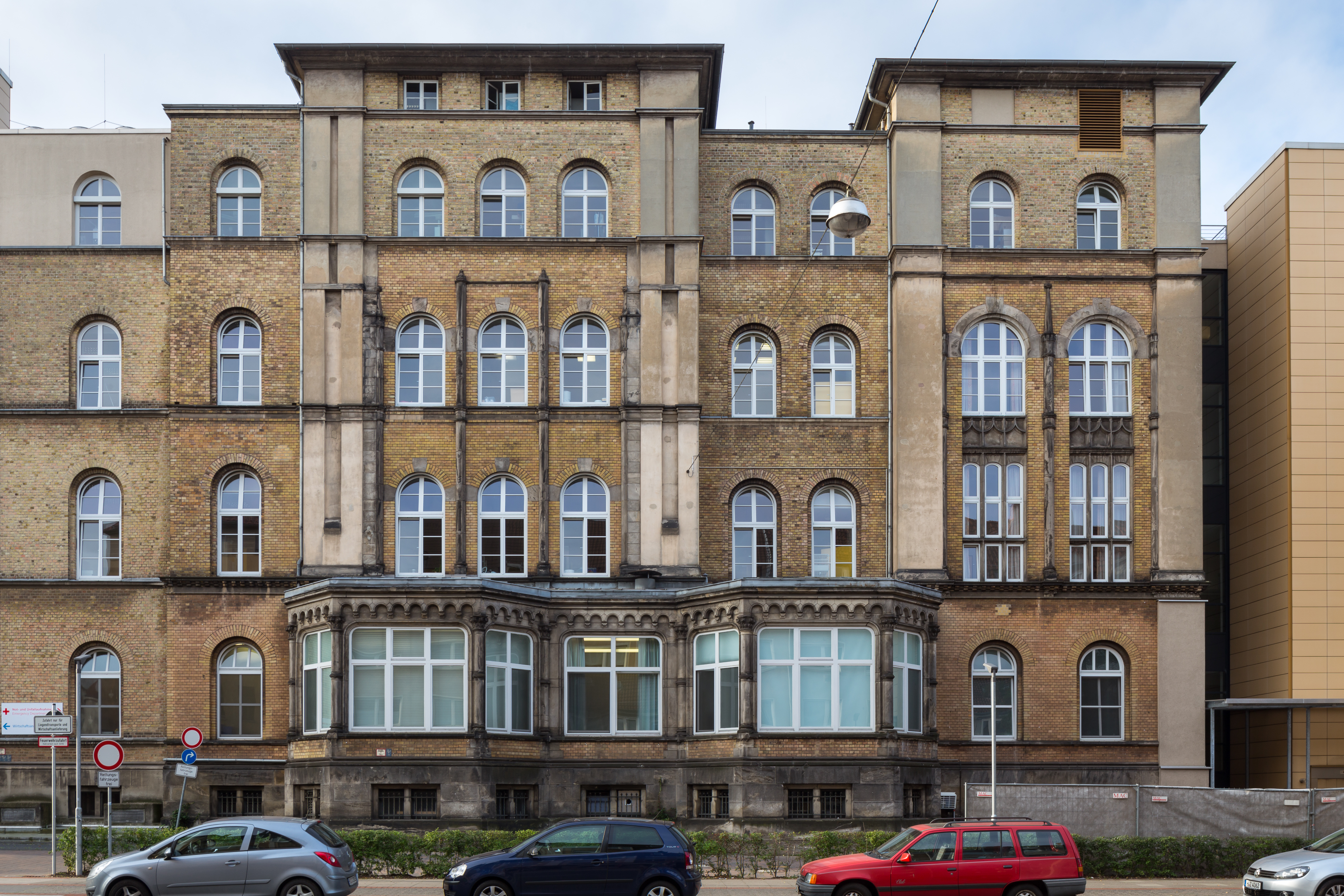 Henriettenstiftung hospital in Suedstadt quarter of Hannover, Germany. This building faces Marienstrasse.